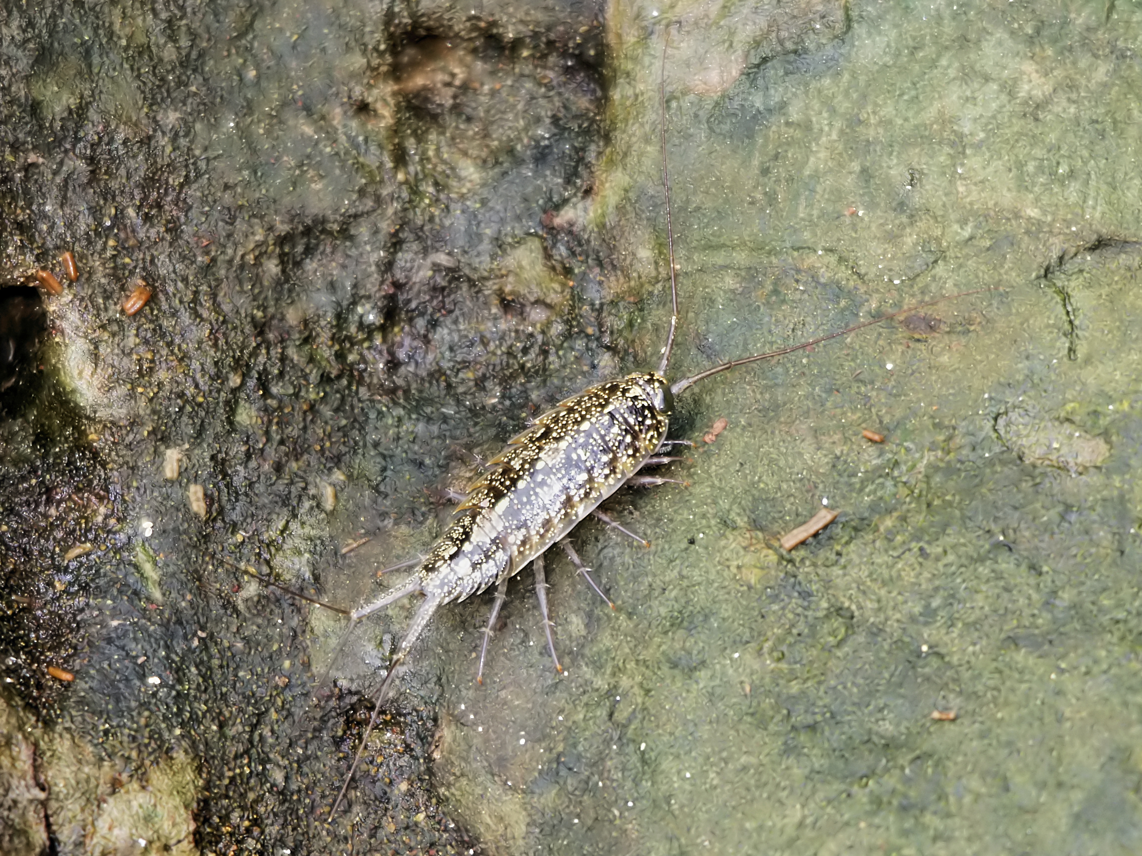 A slater near Puerto Viejo, Costa Rica. Body length (without antennas and uropods) = ~19 mm.